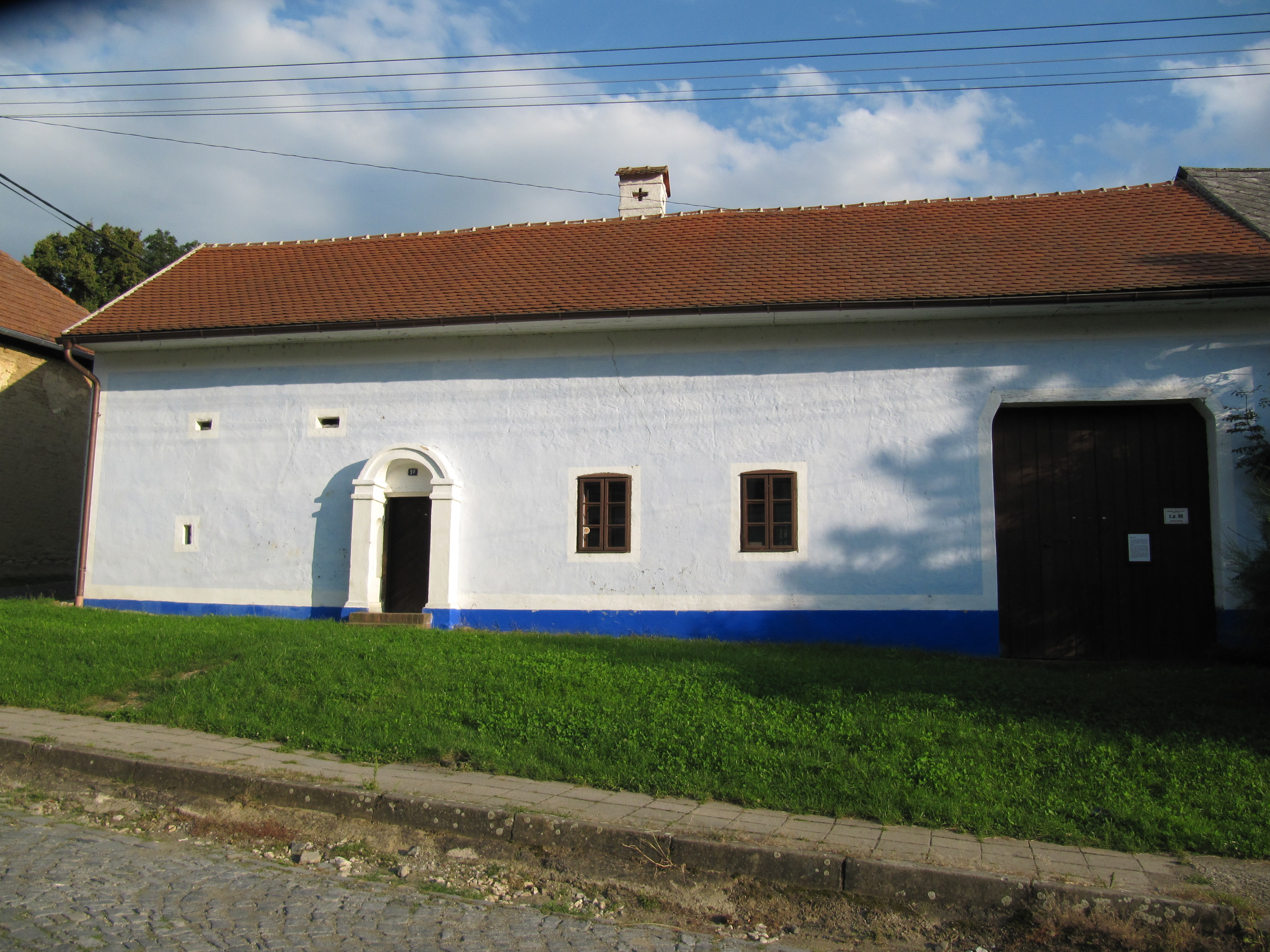 Topolná in Uherské Hradiště District, Czech Republic. Listed house Nr. 90.